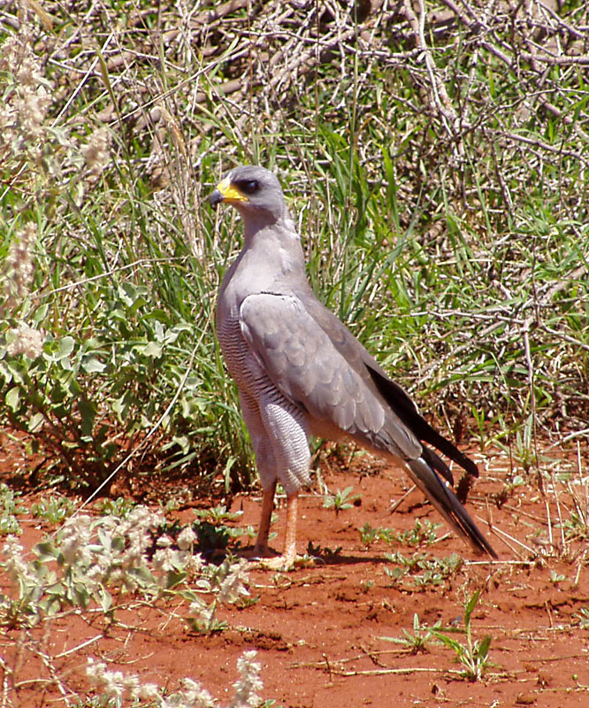 Eastern chanting goshawk in Tsavo West National Park, Kenya.